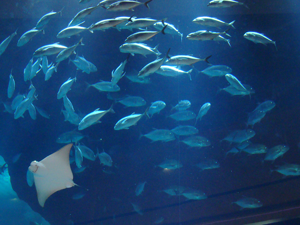 The Dubai Mall has its own Aquarium. You can pay to walk under it, but there are plenty of good views to be had from outside too.